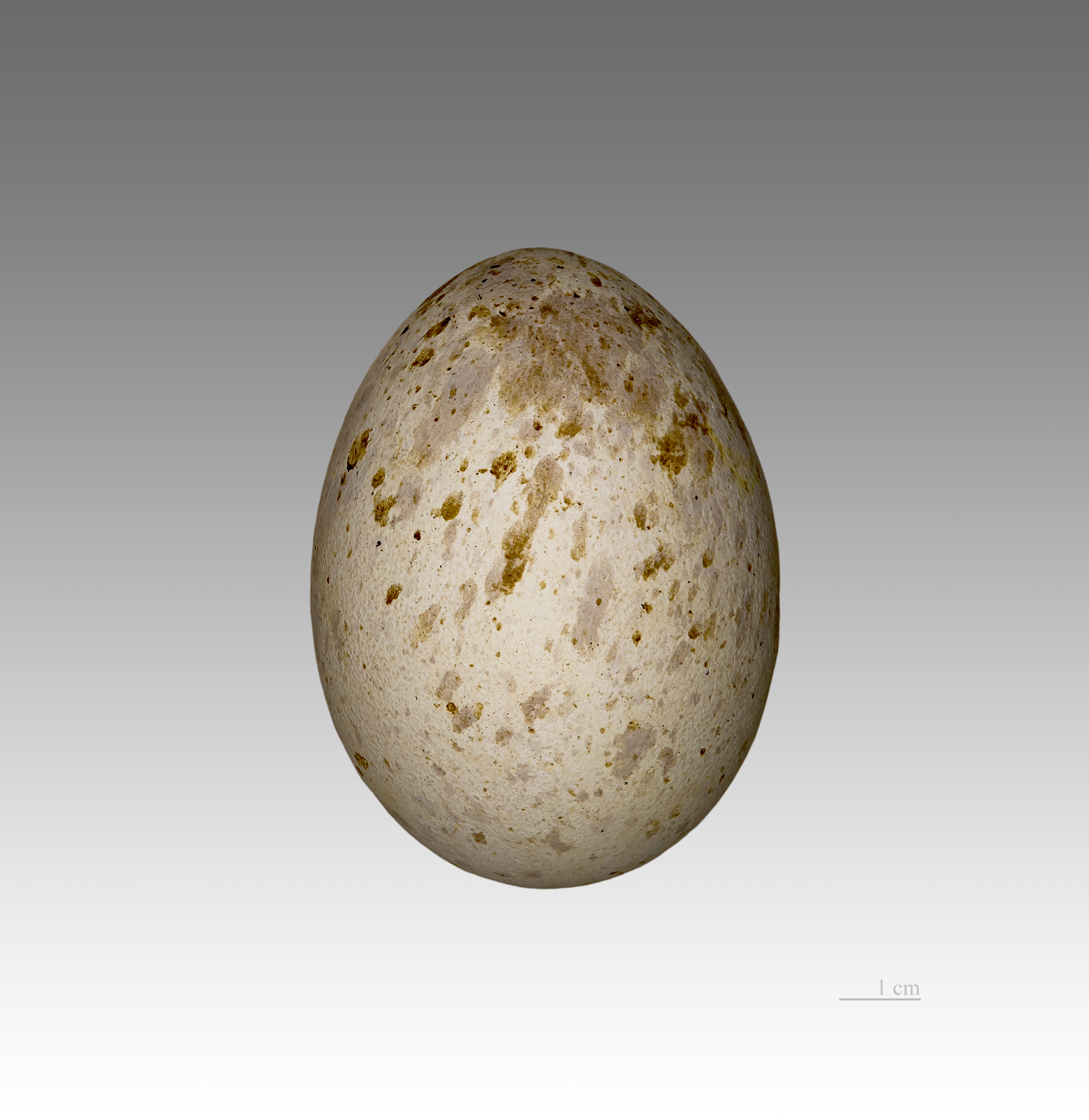 Egg of African Hawk-Eagle. Collection of René de Naurois/Jacques Perrin de Brichambaut. Locality: Kiteng-Oukusi, Uganda.